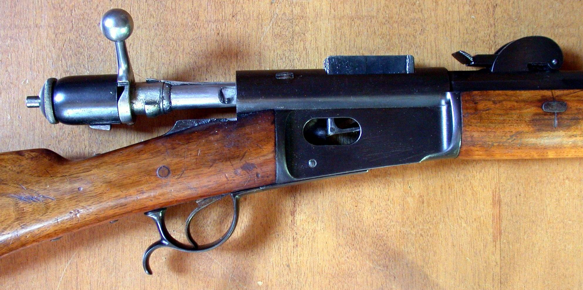 Vetterli rifle, bolt open